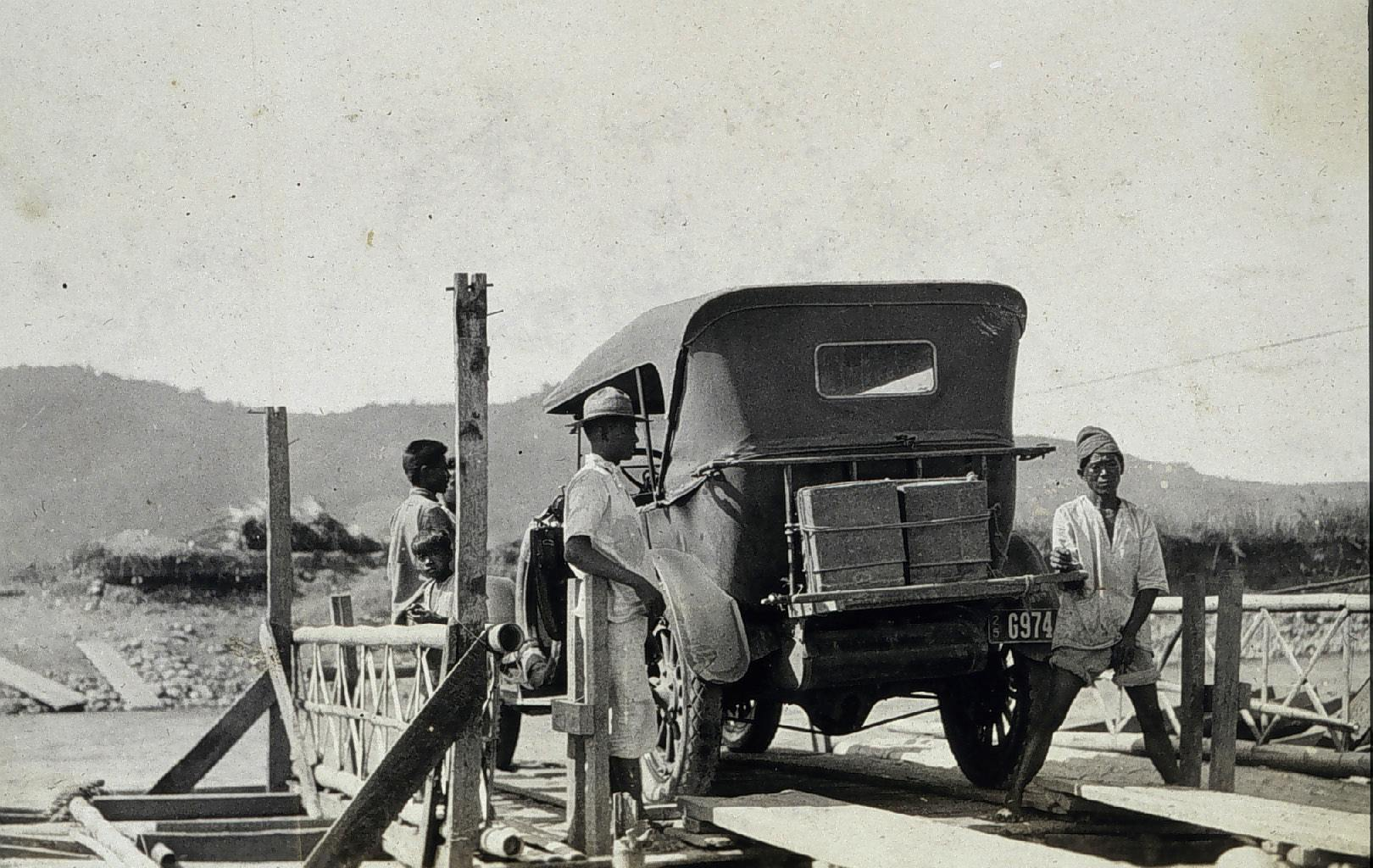 A little less primitive ferry boat in the Southern Philippines. Philippines.